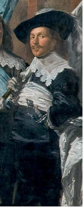 Portrait of Pieter Schout in The officers and non-commissioned officers of the Saint George Civic guard in Haarlem in 1639, detail